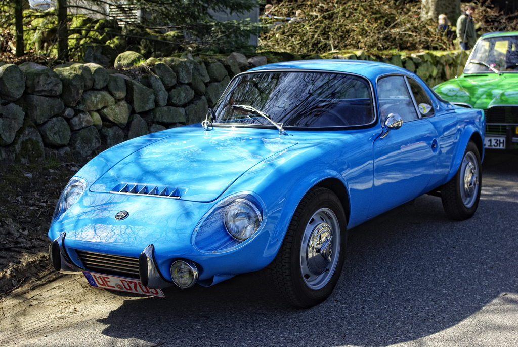 1964 Matra-Bonnet Djet